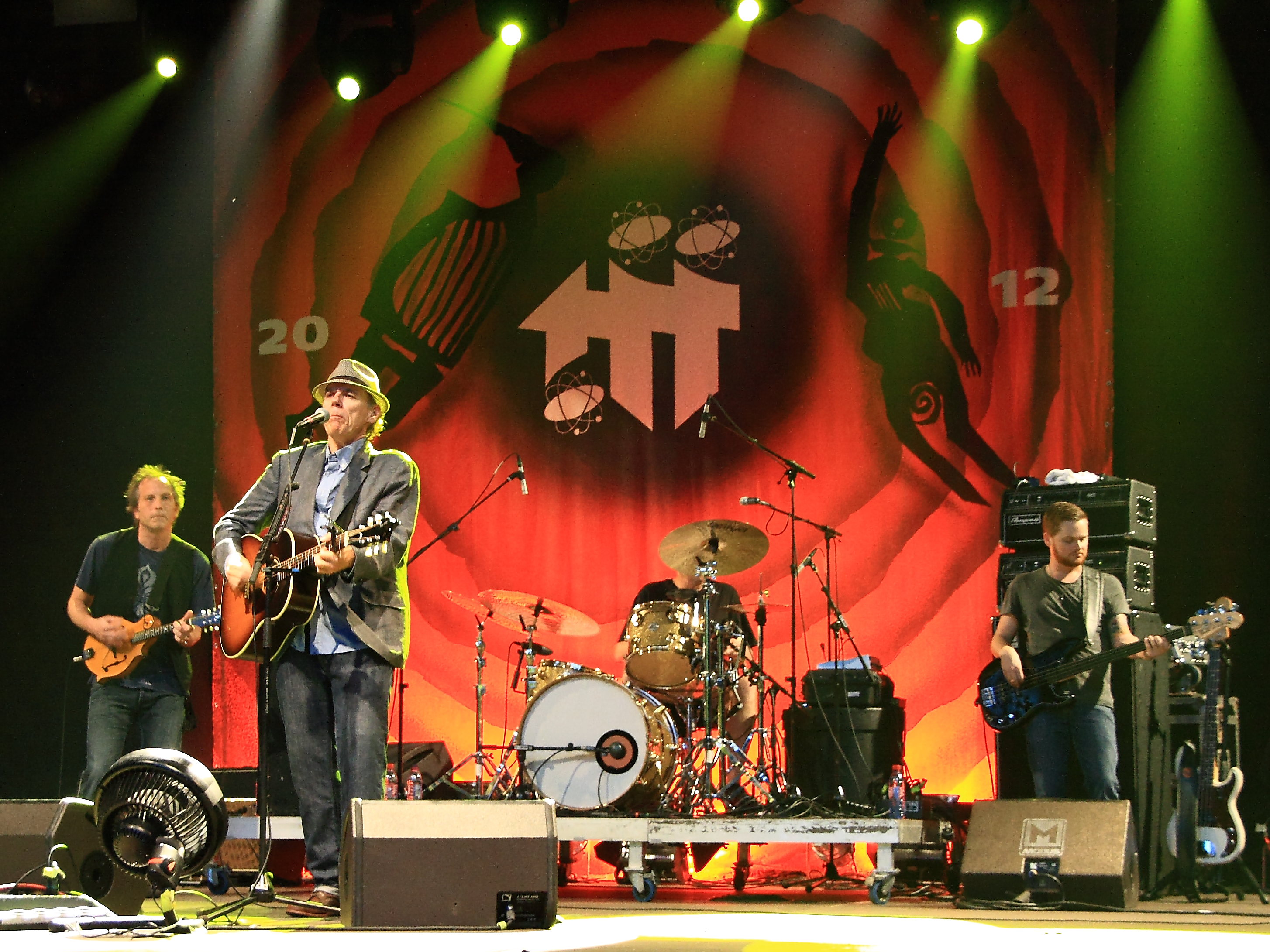 John Hiatt & The Combo at TFF Rudolstadt 2012. L.t.r.: Doug Lancio,John Hiatt, Nathan Gehri & Kenneth Blevins